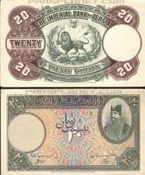 20TOMAN-NASER-2FACES